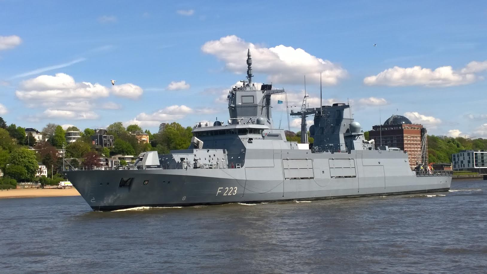 Fregatte F 223 Nordrhein-Westfalen outgoing port of Hamburg on the Elbe